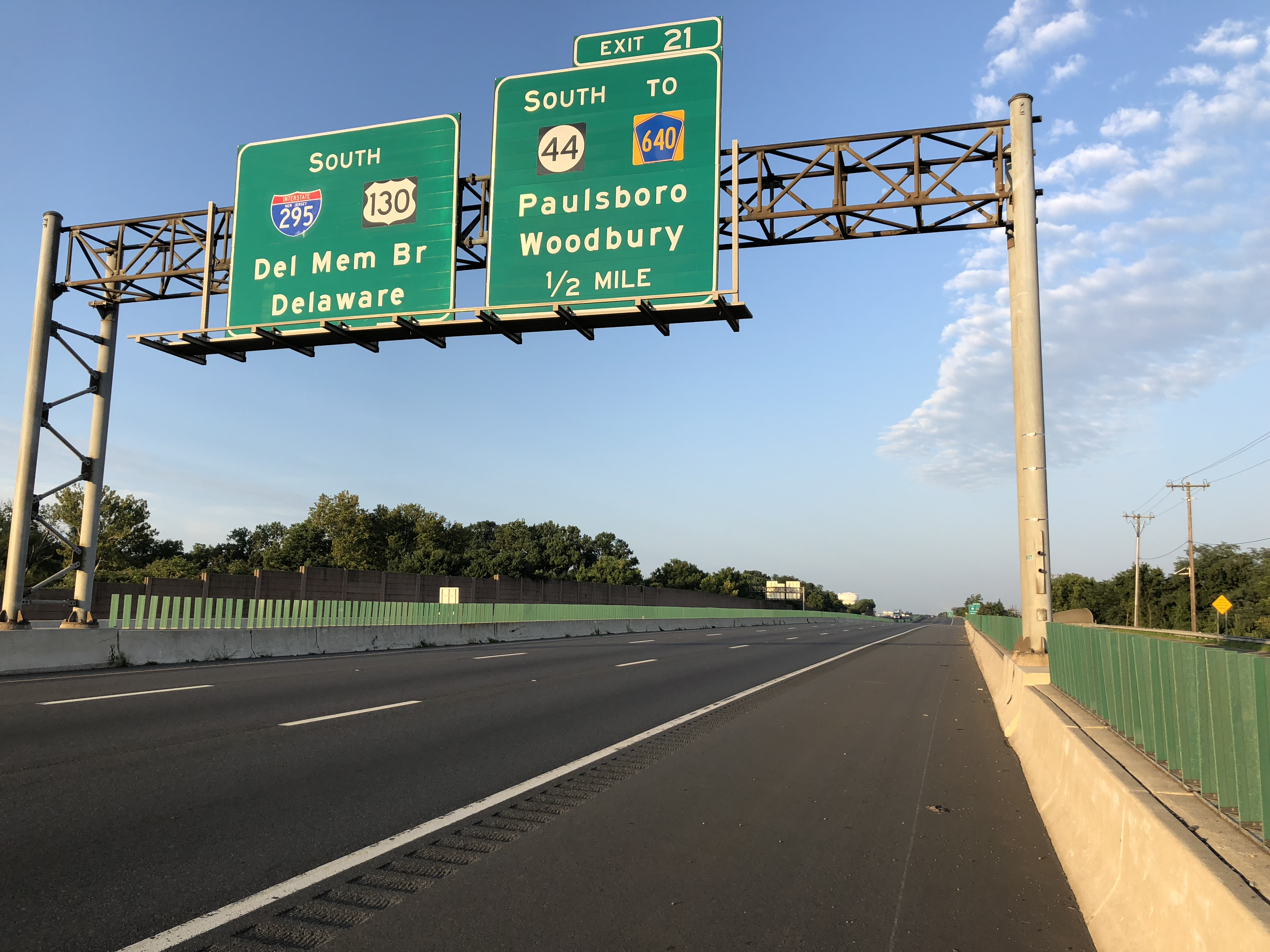 View south along Interstate 295 and U.S. Route 130 just north of Exit 21 (SOUTH New Jersey State Route 44, TO Gloucester County Route 640, Paulsboro, Woodbury) in West Deptford Township, Gloucester County, New Jersey